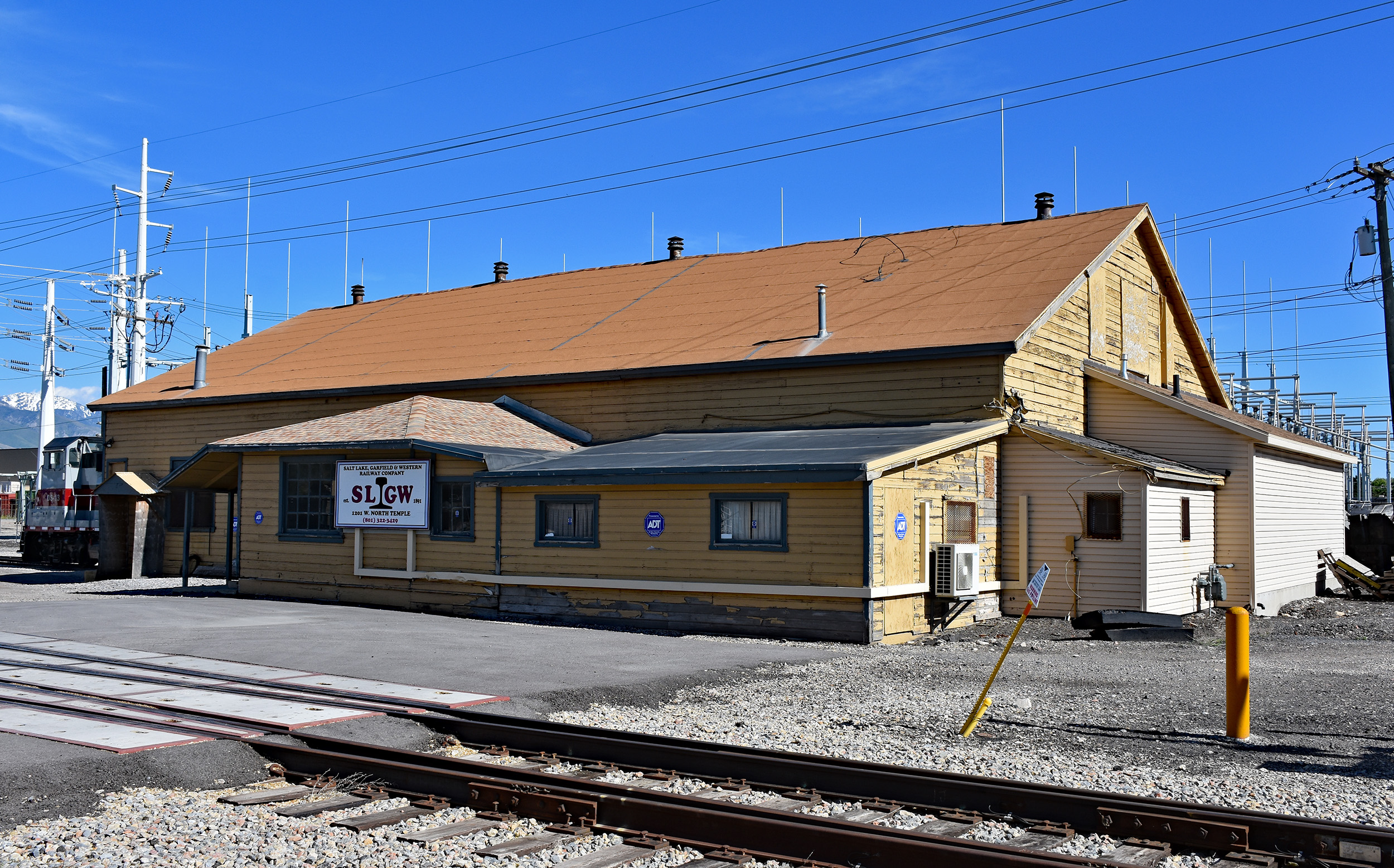 The maintenance facility and offices of the Salt Lake, Garfield and Western Railway. The building is located west of downtown Salt Lake City, next to the Jordan River. Photograph taken from the Jordan River Parkway Trail. A nearby informational sign that indicates the building was constructed in 1892.